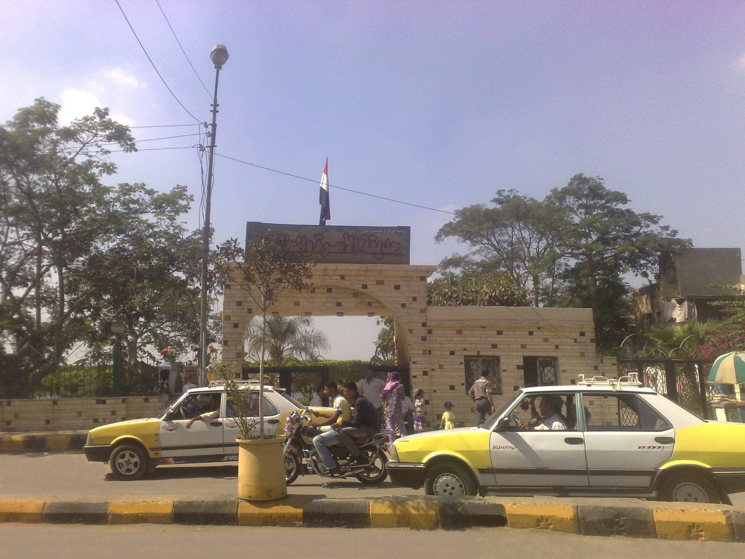 Family and Children Garden, Desouk